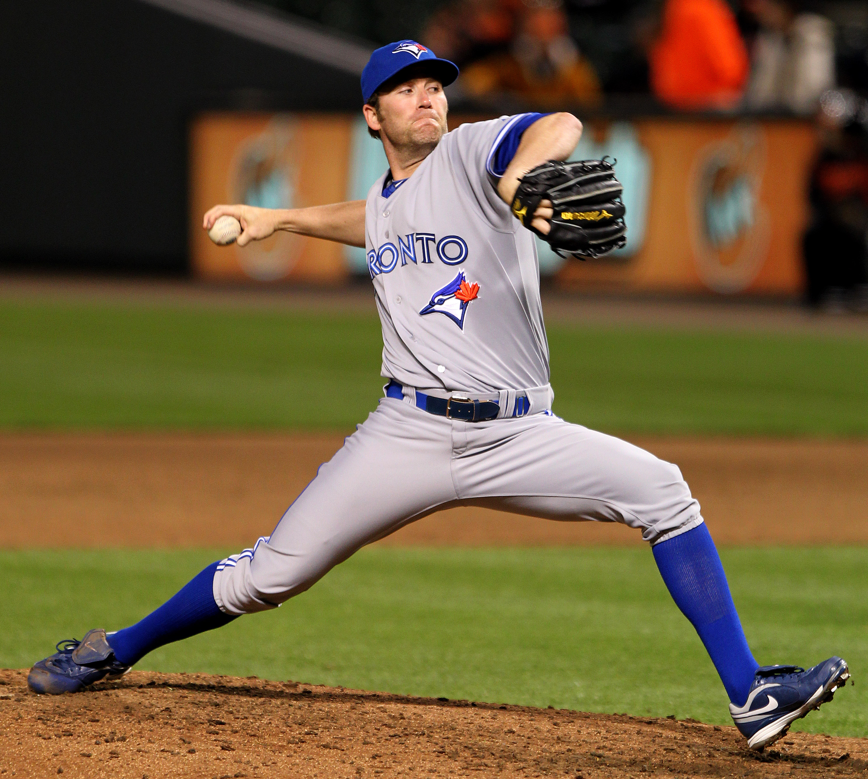 Casey Janssen